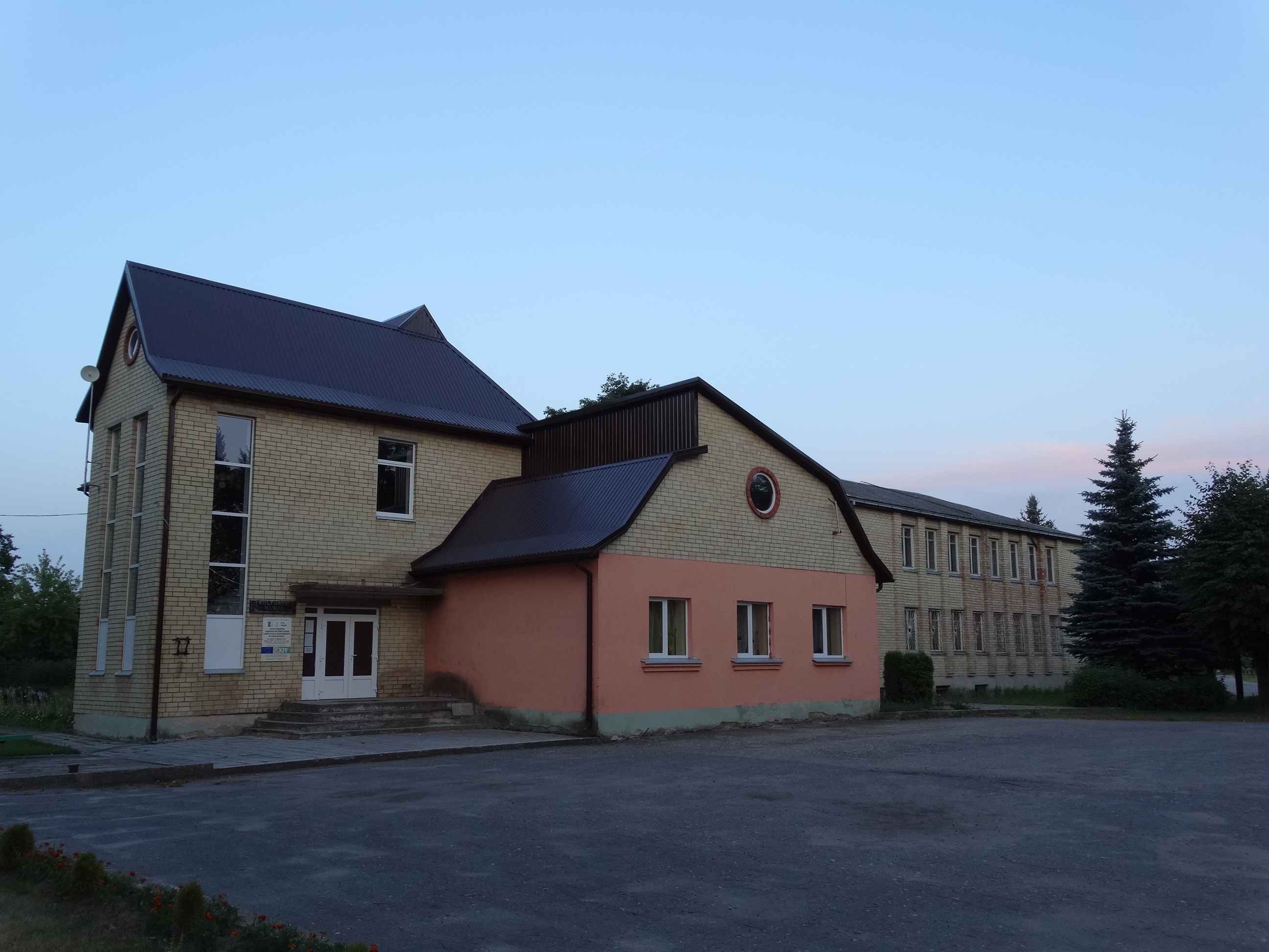 Centre of culture, Liaušiai, Ukmergė district, Lithuania